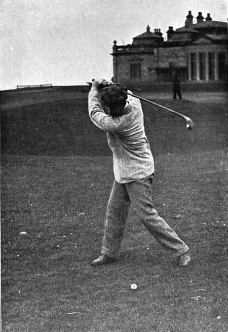 A circa 1895 photo of Scottish golfer Alexander "Sandy" Herd.